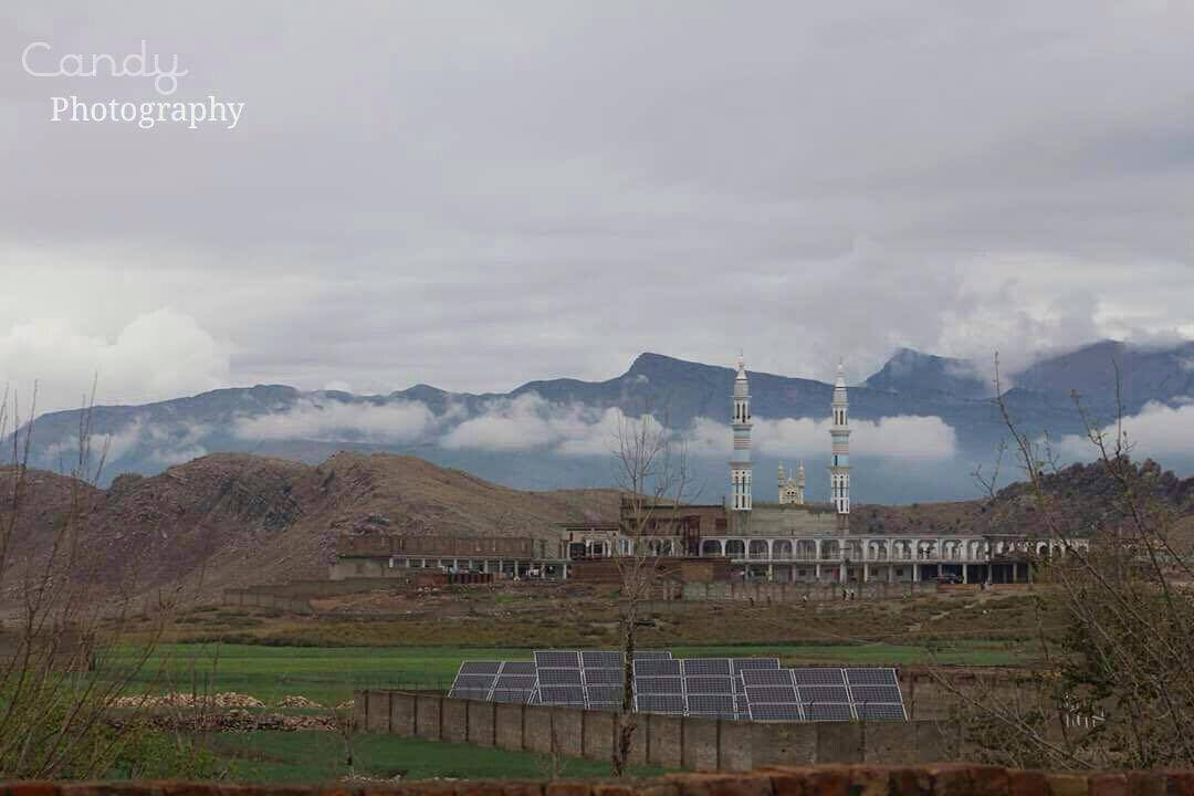 The view of Karbogha Sharif